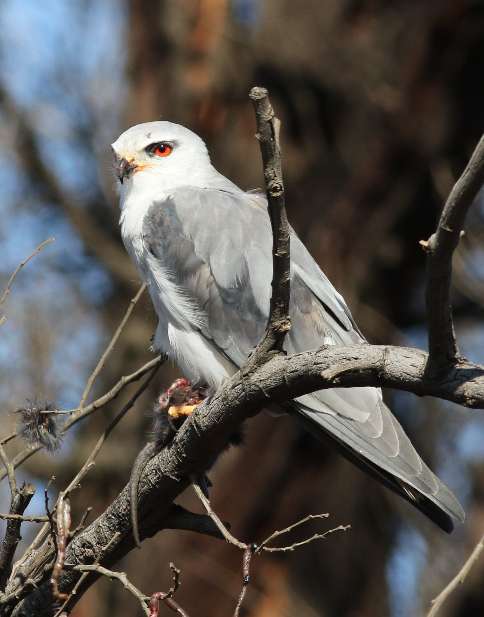 Black-winged kite, Elanus caeruleus, at Rietvlei Nature Reserve, Gauteng, South Africa